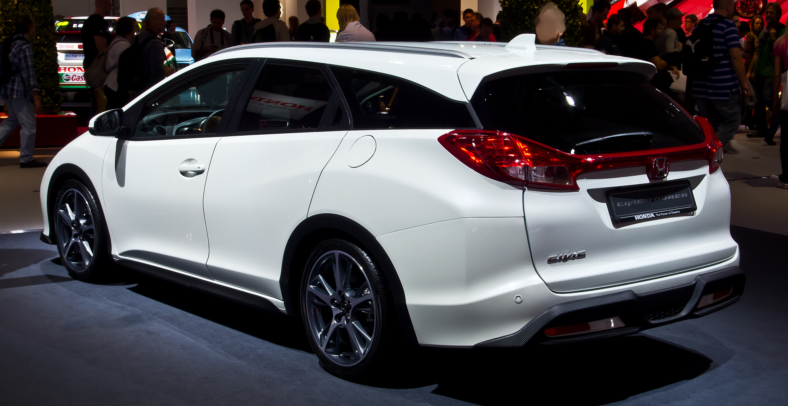 Honda Civic Tourer (IX)